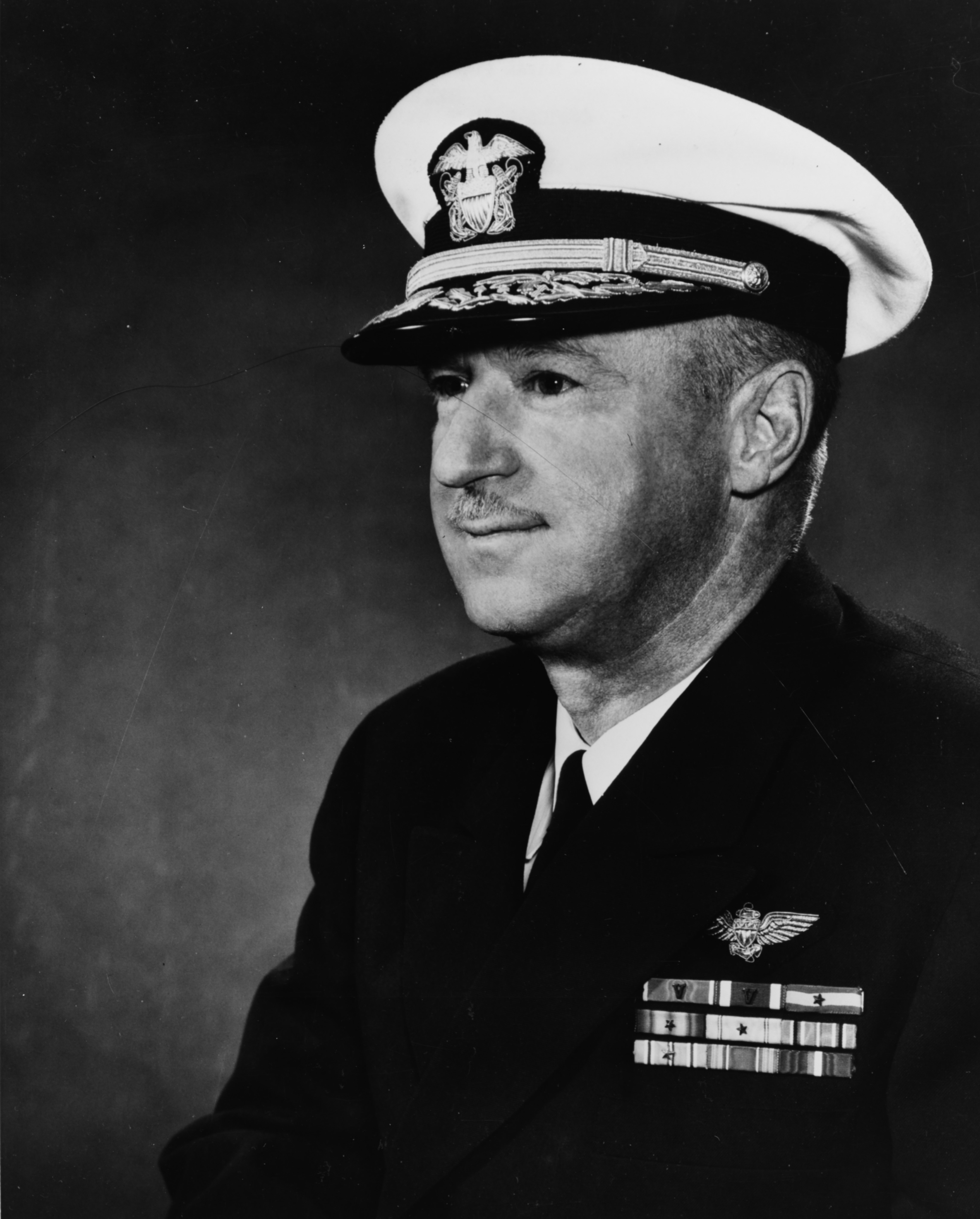 Rear Admiral Afred M. Pride